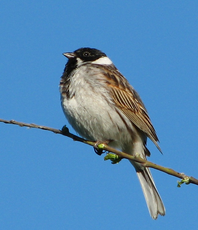 Emberiza schoeniclus (male), Gatchina, Russia